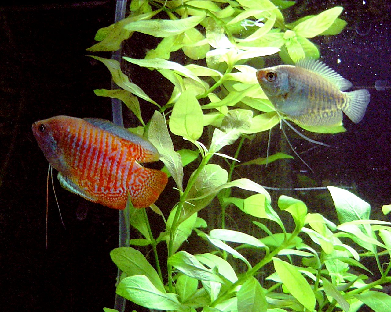 Picture of a male (left) and female (right) Dwarf gourami, Colisa lalia. The image depicts the natural colour variation.